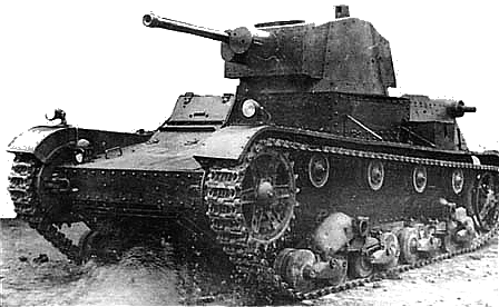 Polish 7TP light tank.